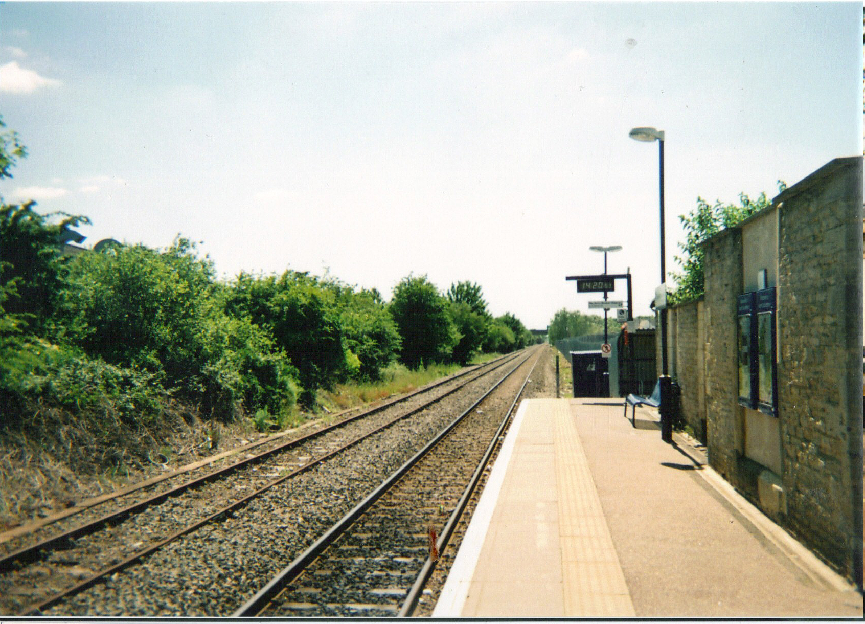 I took this picture of Bicester town station in 2010 my self. It will be rebuilt and enlarged in 2011-2012.